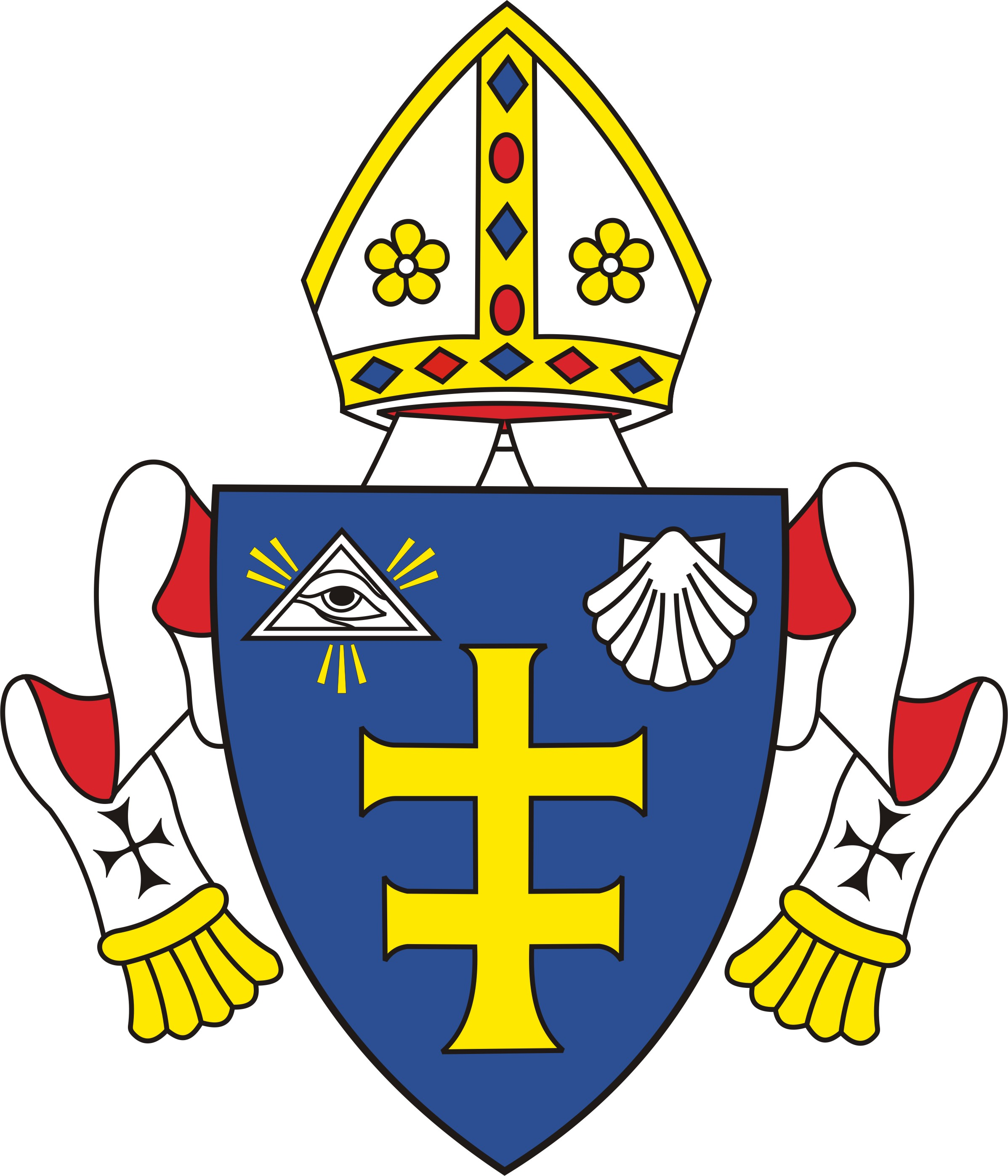 Diocese of Žilina